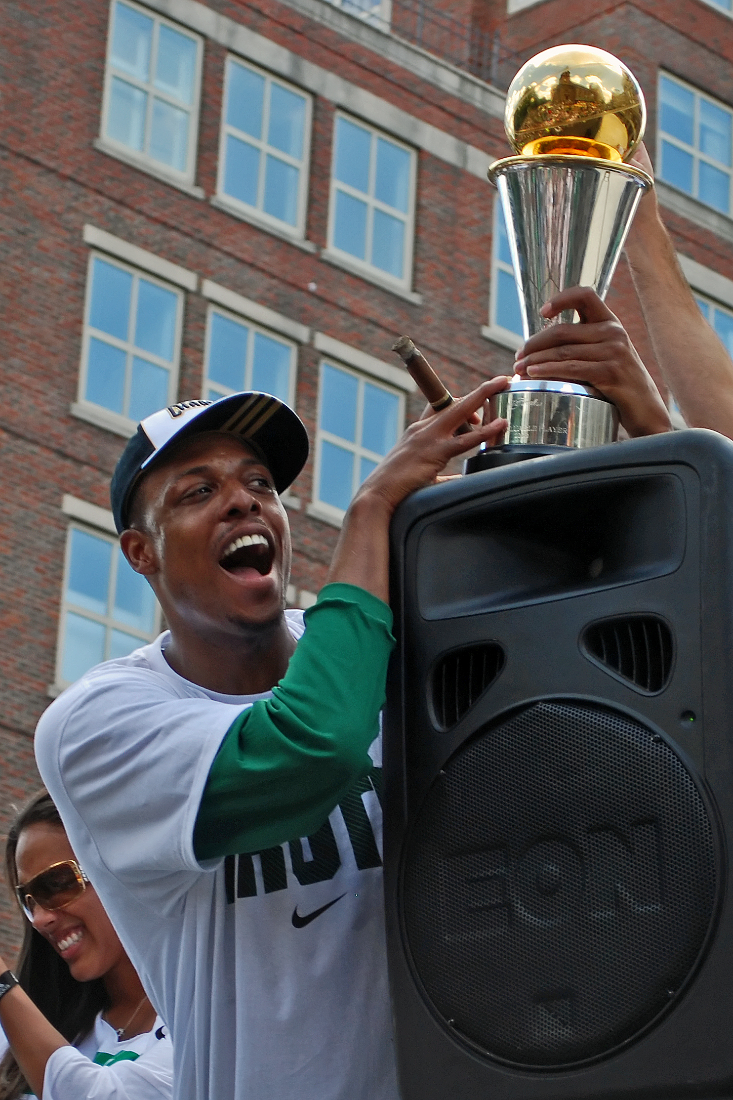 Paul Pierce holds up his NBA Championship MVP Trophy. Well deserved!